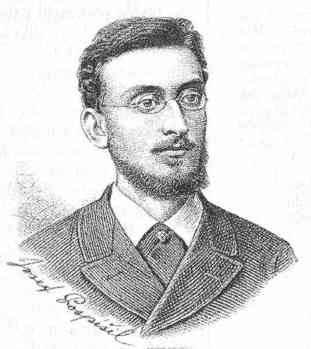 Portrait of Czech chess player, composer and theoretician Josef Pospíšil